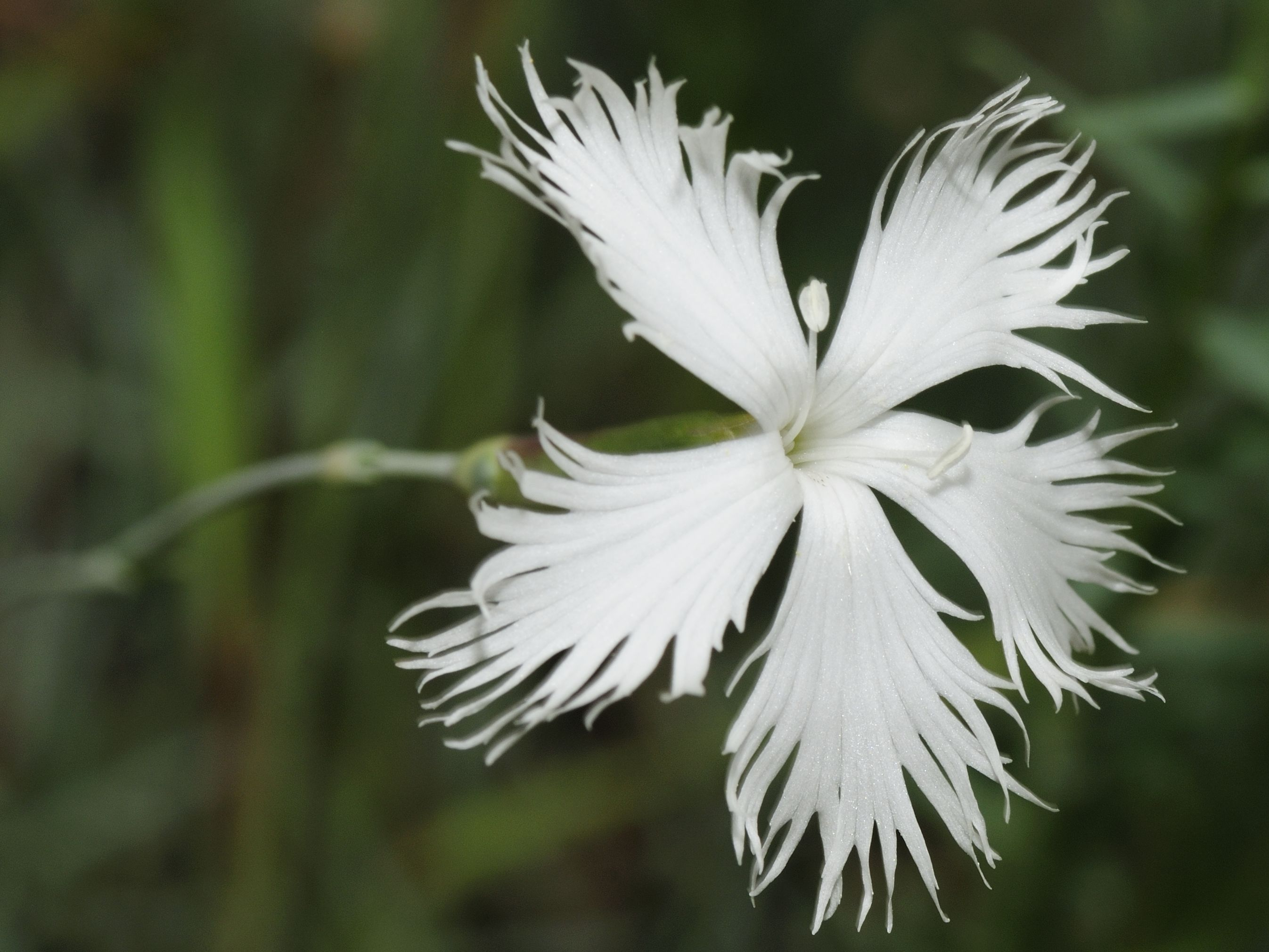 Please report references to .